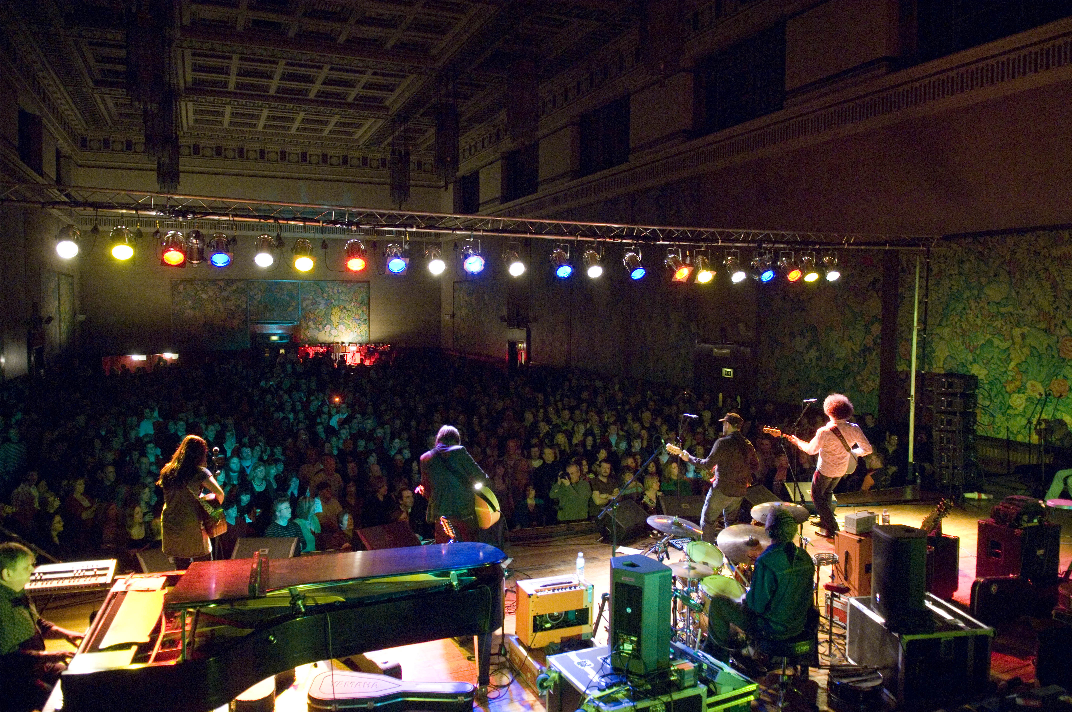 The Storys playing The Brangwyn Hall, Swansea on 26 February 2009